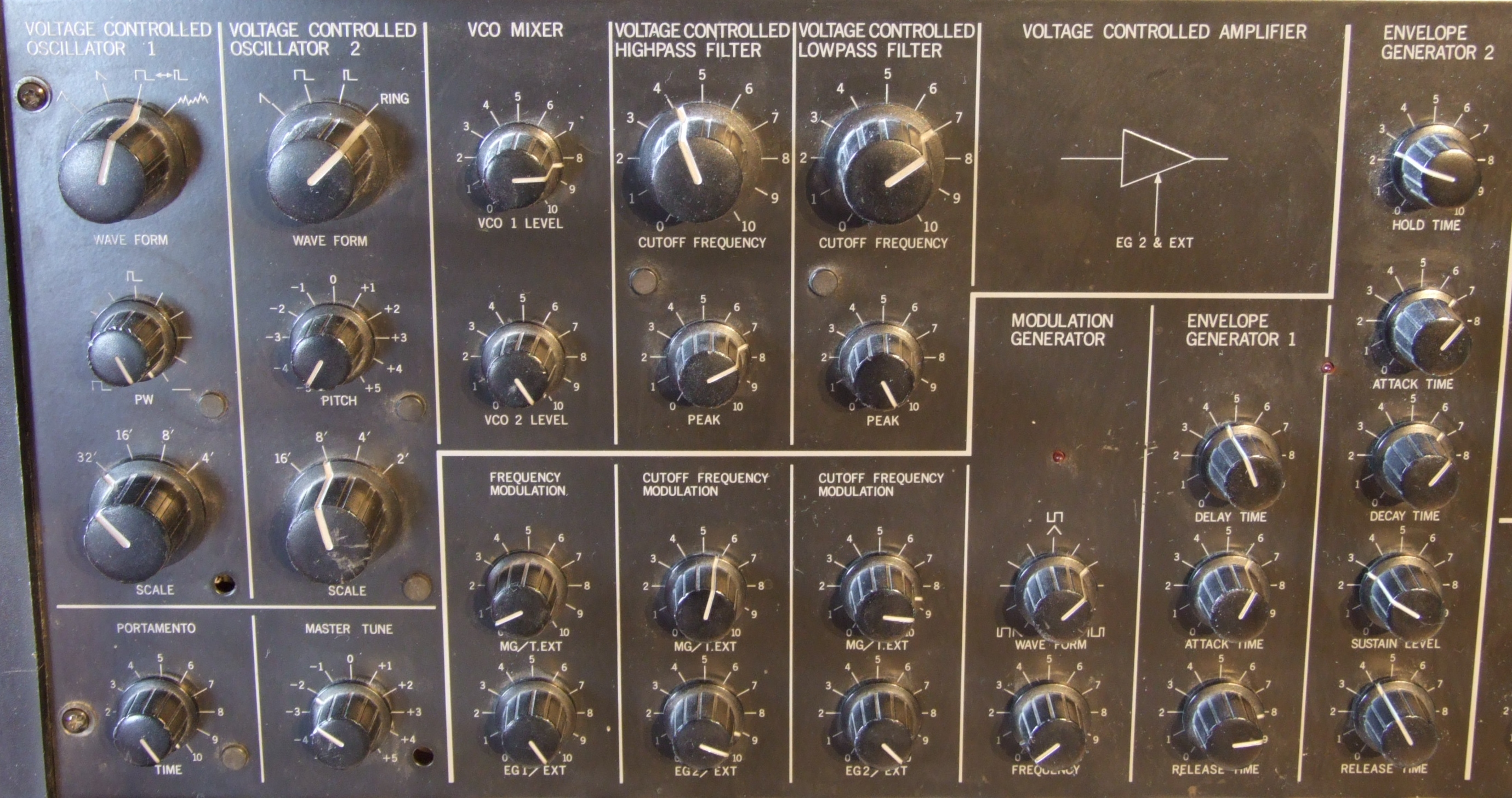 Korg MS-20 monophonic synthesizer, sound generation section